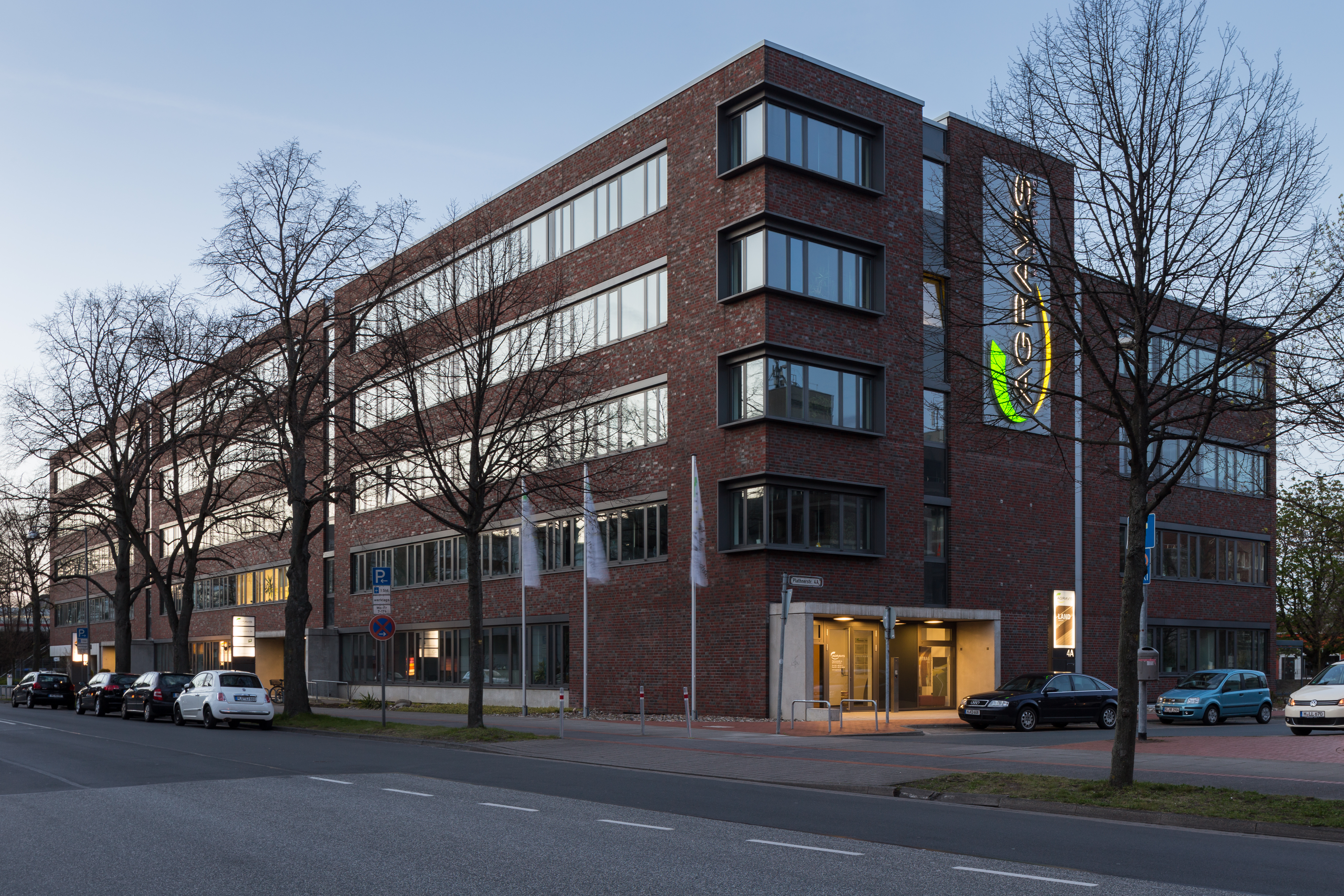 Office building of Agravis Raiffeisen company located at Plathnerstrasse no. 4a in Bult quarter of Hannover, Germany.